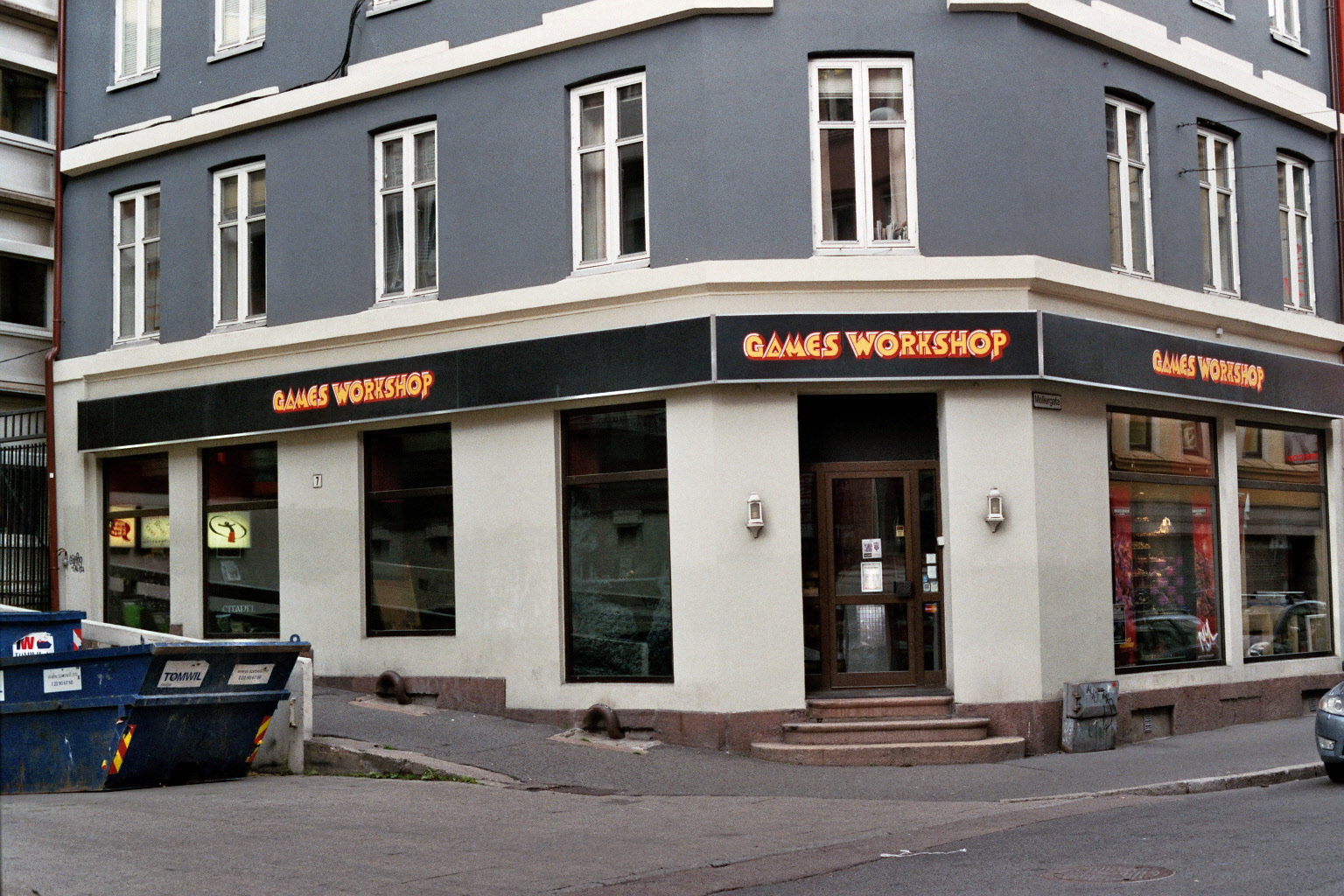 Games Workshop store, Oslo, Norway.